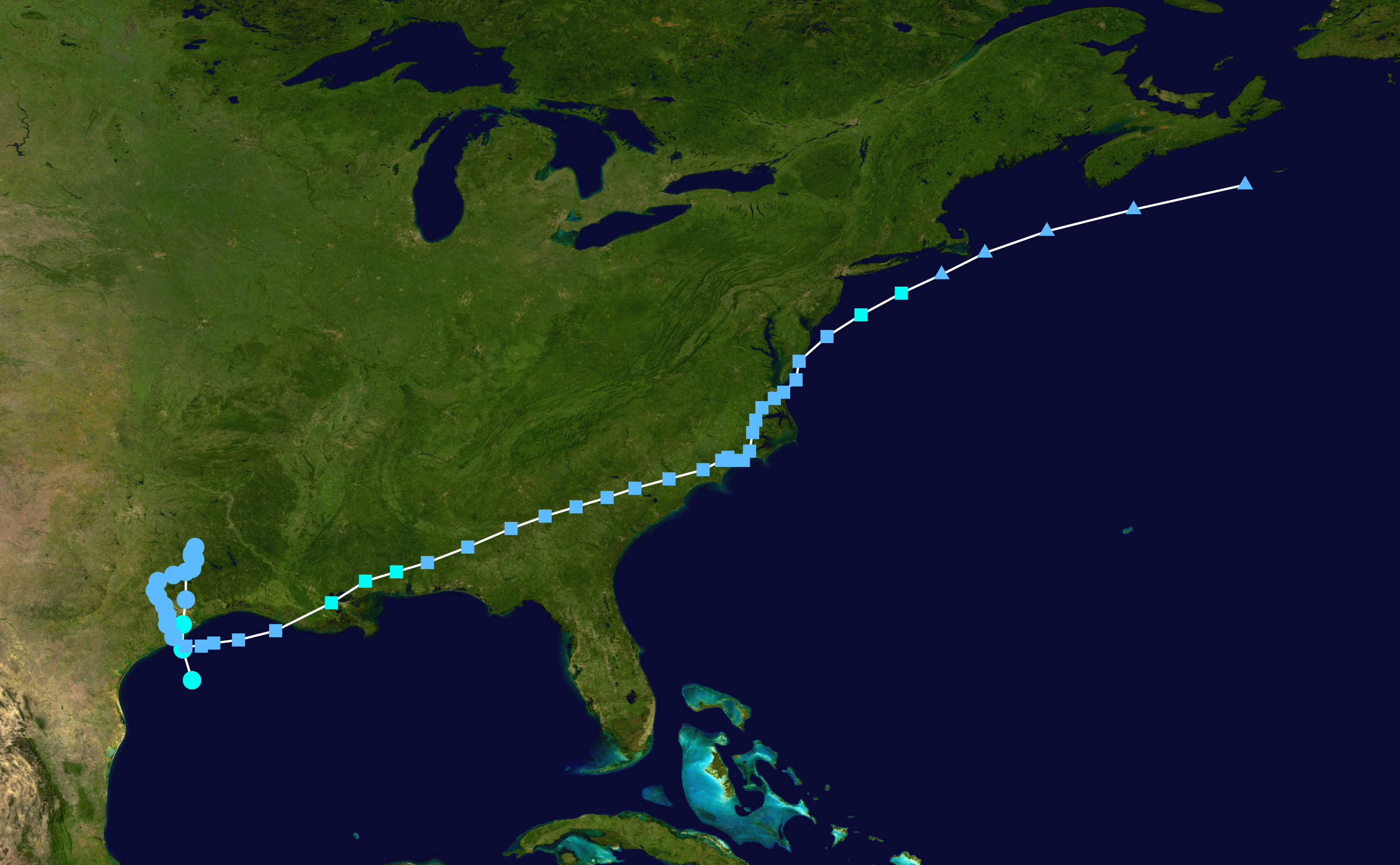 Track map of Tropical Storm Allison of the 2001 Atlantic hurricane season. The points show the location of the storm at 6-hour intervals. The colour represents the storm's maximum sustained wind speeds as classified in the Saffir–Simpson scale (see below), and the shape of the data points represent the nature of the storm, according to the legend below. Saffir–Simpson scale Tropical depression≤38 mph≤62 km/h Category 3111–129 mph178–208 km/h Tropical storm39–73 mph63–118 km/h Category 4130–156 mph209–251 km/h Category 174–95 mph119–153 km/h Category 5≥157 mph≥252 km/h Category 296–110 mph154–177 km/h Unknown Storm type Tropical cyclone Subtropical cyclone Extratropical cyclone / Remnant low / Tropical disturbance / Monsoon depression